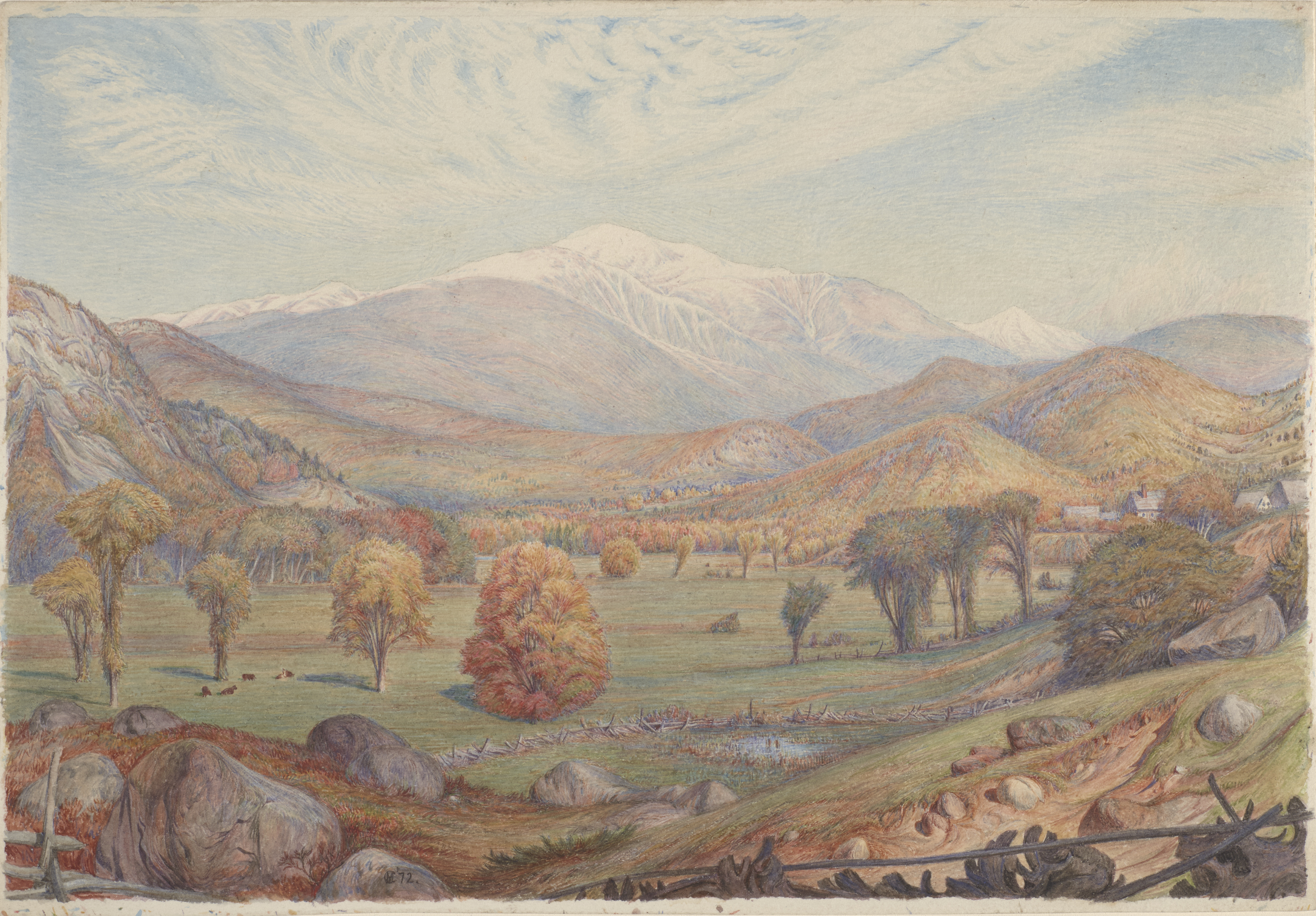 Charles Herbert Moore, American, 1840–1930 Mount Washington, 1872 Watercolor and touches of graphite on cream wove paper 16 x 23 cm (6 5/16 x 9 1/16 in.) Gift of Miss Elizabeth Huntington Moore, the artist's daughter, presented by Mrs. Frank Jewett Mather Jr. x1955-69 Moore’s exquisite watercolor landscapes and nature studies were inspired by the teachings of John Ruskin, who singled out watercolor as the ideal medium with which to celebrate nature—specifically and accurately—as the embodiment of the divine. Created relatively early in Moore’s career, while he was living in the Catskill Mountains, Snow Squall expressively captures a wintry landscape at twilight, with the arc of clouds above signifying a passing storm. The same undulating forms reappear in the later and more minutely rendered Mount Washington, where the iconic New Hampshire peak rises with quiet grandeur above an idyllic valley as observed in late autumn. Thanks to the persistence and dedication of pioneering director Frank Jewett Mather Jr. (1922–46), the Princeton University Art Museum is one of the leading repositories of Moore’s work, together with Harvard’s Fogg Art Museum, where Moore served as its first director (1896–1901).